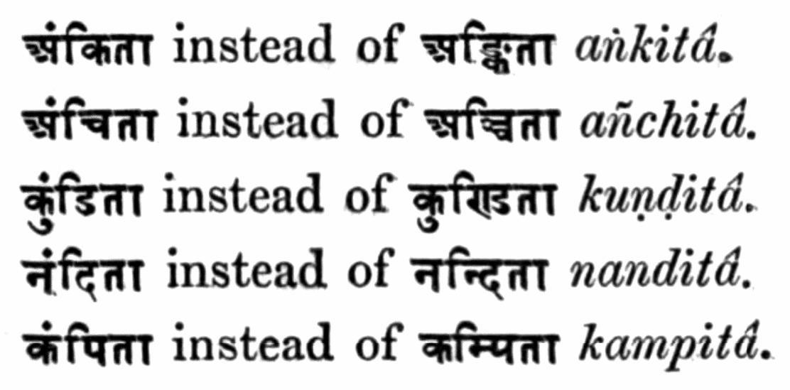 A description of anusvara using modified Jonesian/Hunterian transliteration